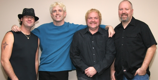 ApologetiX in January of 2008